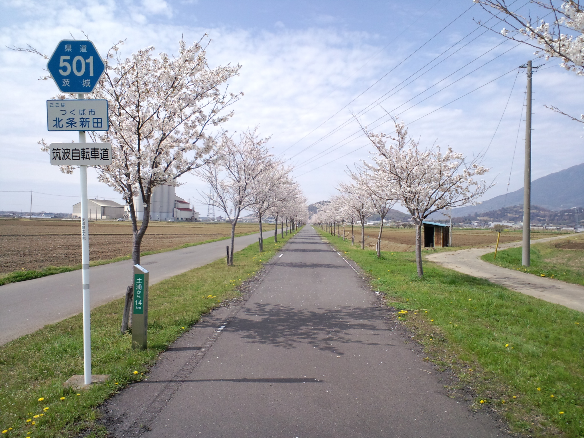 The Ibaraki Prefectual Road Route 501 (Tsukuba Rinrin Road) in Hojo-Shinden, Tsukuba City